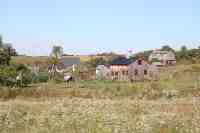 A picture of Christiansbrunn Hermitage, Pitman, Pennsylvania.